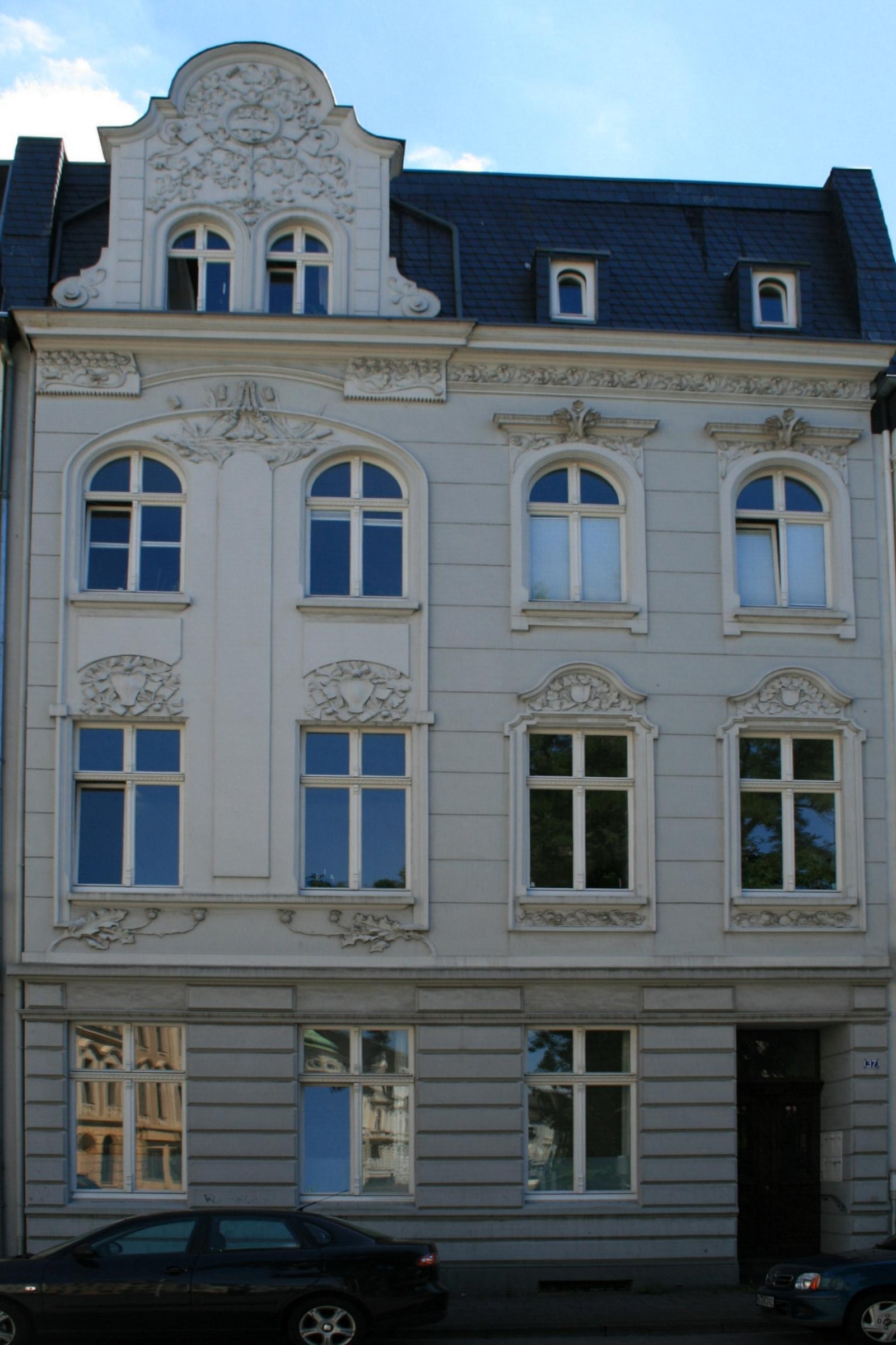 Cultural heritage monument No. M 047 in Mönchengladbach